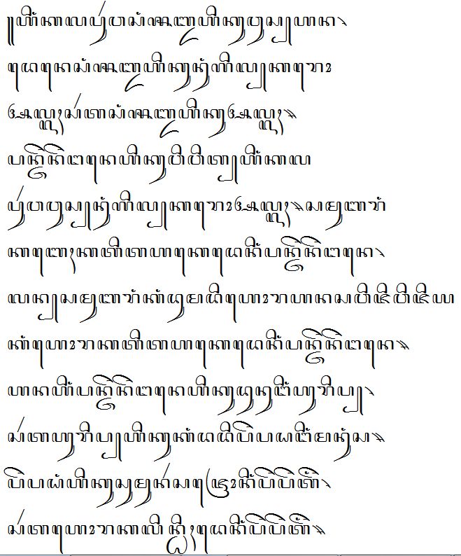 John 1:1-5 in Javanese script